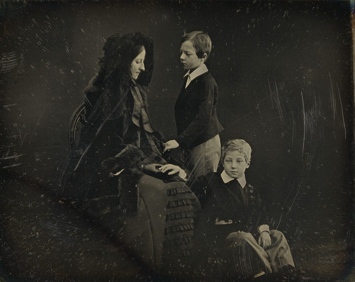 Princess Victoria of Saxe-Coburg and Gotha, Duchess of Nemours (1822-1857) seated in right side profile. She wears a black shawl and bonnet. Standing next to her in three-quarters left is her son, Louis Philippe Marie Ferdinand Gaston d'Orléans, Count of Eu (1842-1922). Seated by her feet and facing the viewer is Ferdinand Philippe Marie d'Orléans, Duke of Alençon (1844-1910), his right hand in his mother's hand.